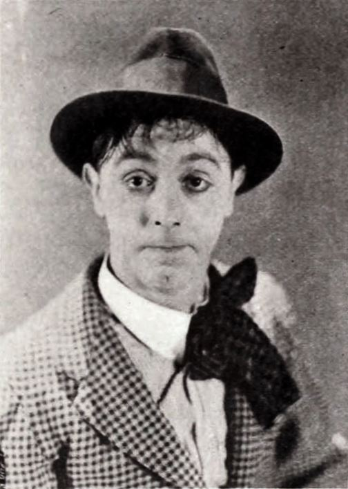 British actor and comedian Lupino Lane, on page 55 of the January 7, 1921 Exhibitors Herald. The caption states he was scheduled to appear in some Fox Film Corp. comedy films.